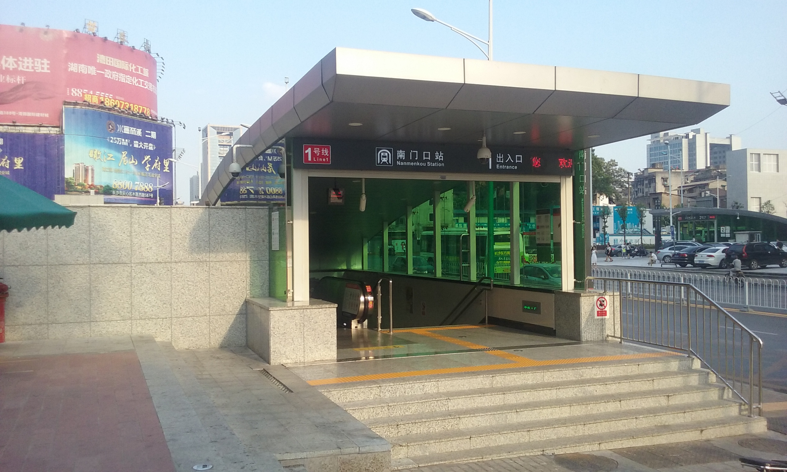 Entrance No.1 of Nanmenkou Station